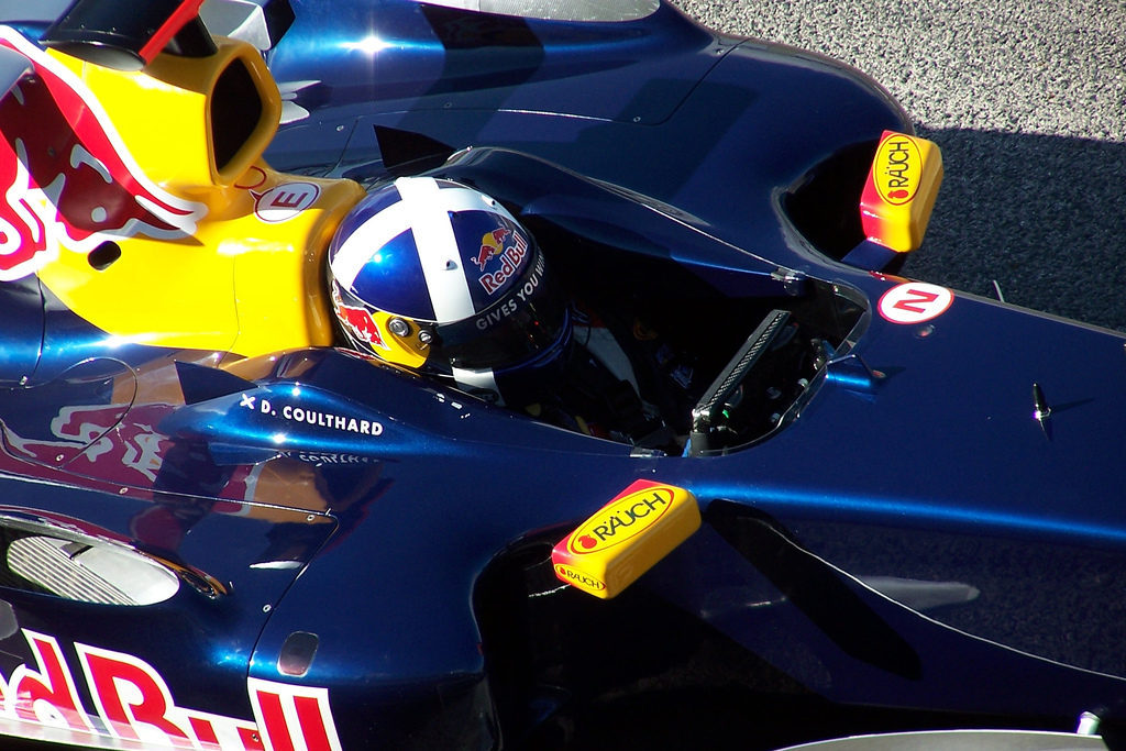 David Coulthard testing for Red Bull Racing at Valencia in February 2006.